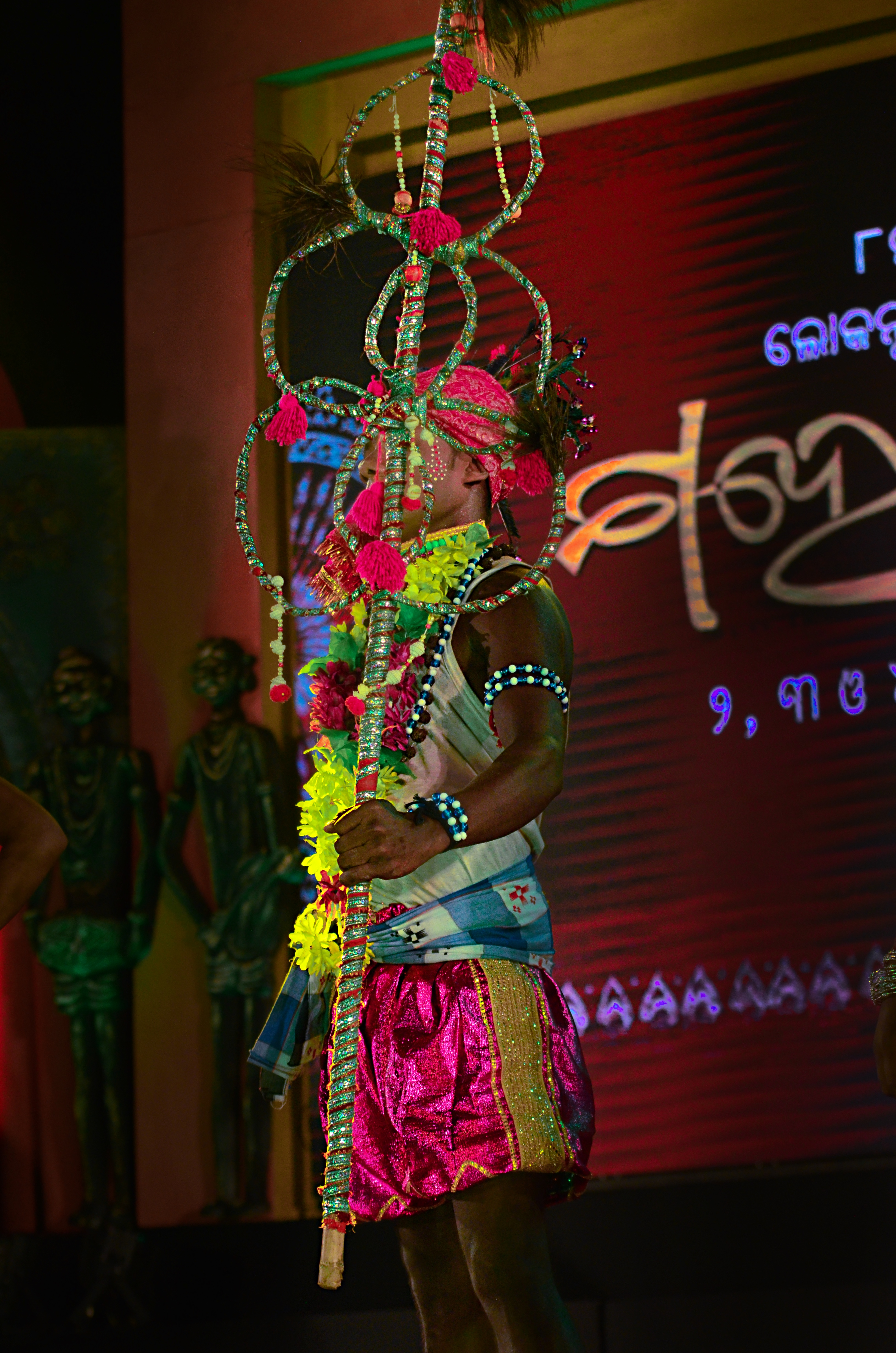 Danda Nata is an ancient ritualistic folk dance of Odisha associated with Shakta traditions.